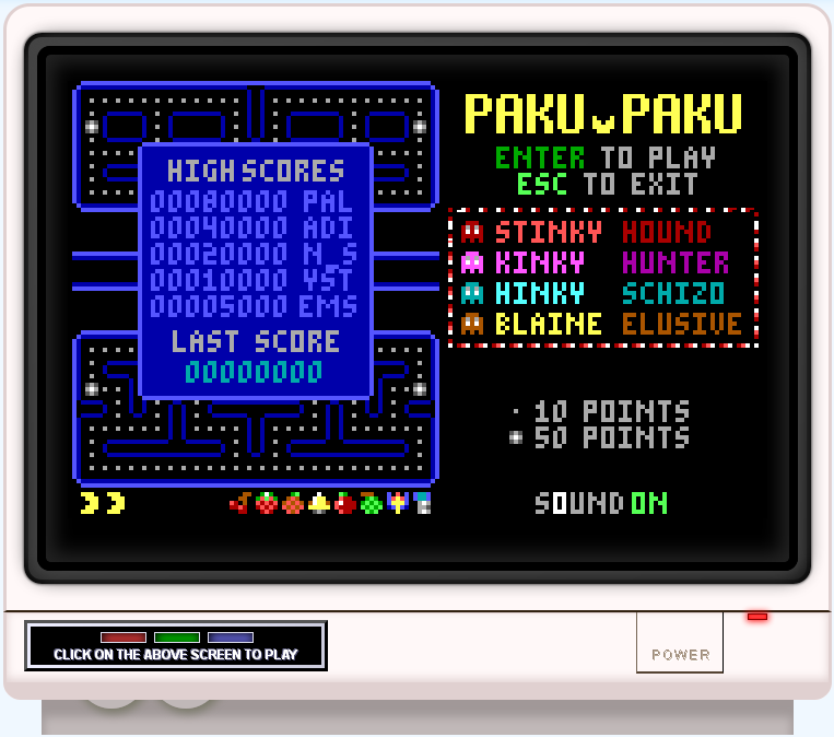 paku paku screenshot (public domain)